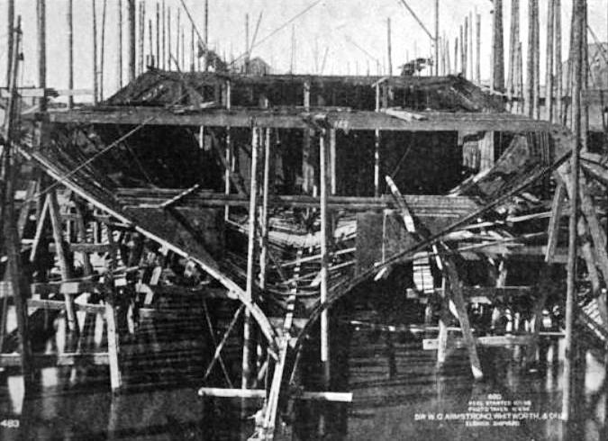 Photograph of the hull of the Battleship Hatsuse under construction 3 months after the keel has been laid.